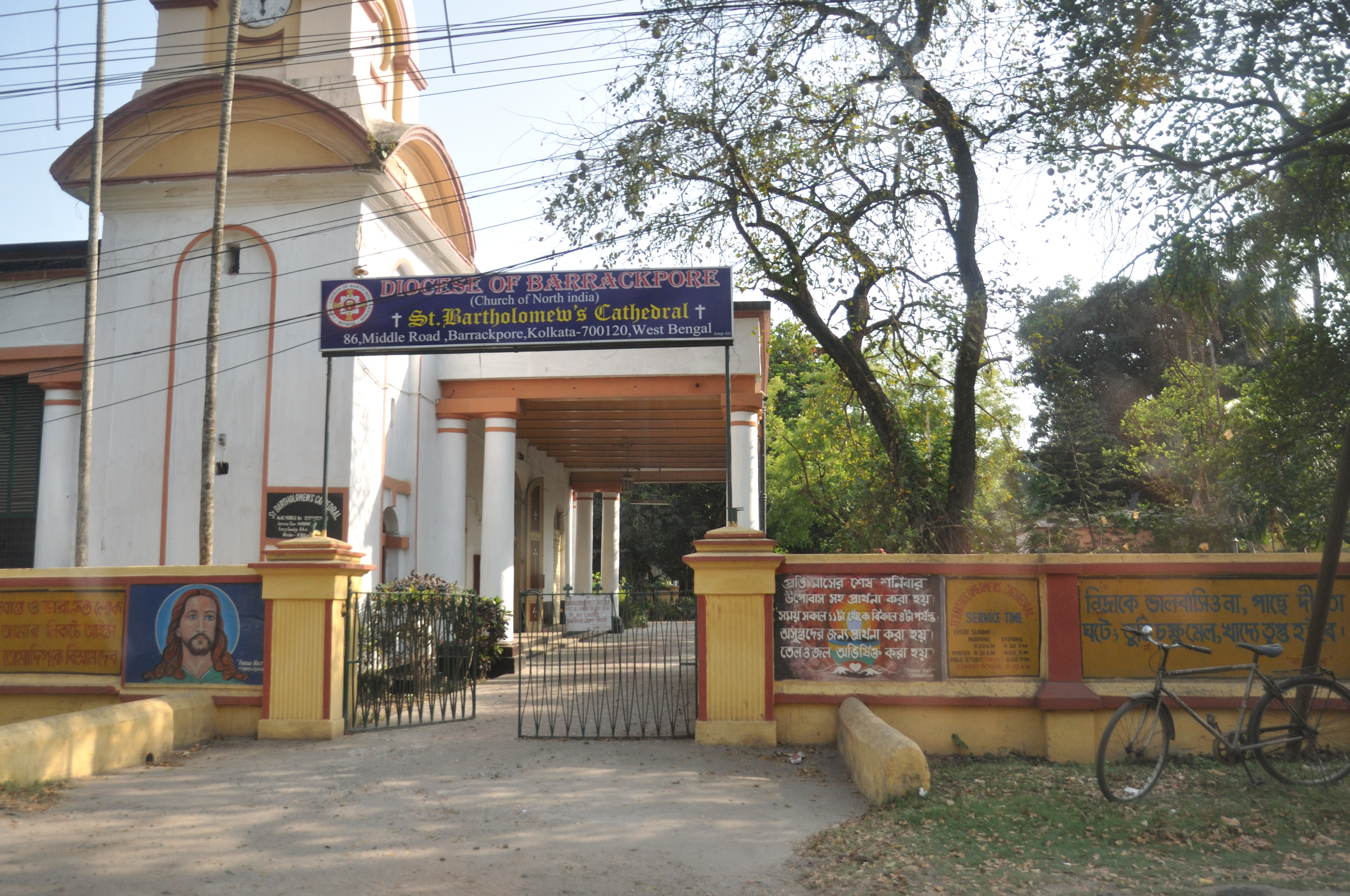 This photograph was taken in North 24 Parganas, West Bengal.